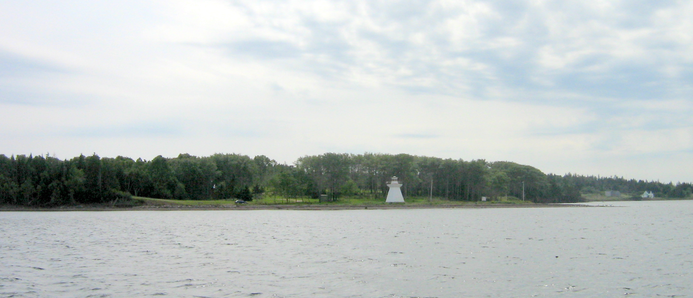 Lennox Passage Provincial Park is a small picnic and beach park on the shores of Lennox Passage (waterway) on the North Shore of Isle Madame on Cape Breton Island with 2 kilometres (1.2 mi) of shoreline, an operating lighthouse and site of a former post office (c.1910), ferry terminal and two limestone quarries. Visitors can picnic at tables scattered through a forest and open areas, enjoy the 2 kilometres (1.2 mi) of trails, or explore the working lighthouse. In summer the park offers swimming, kayaking, and biking opportunities. There are snowshoeing and cross-country skiing opportunities in the winter, however parking is available at the gate only in the off season. Located on Hwy 320, 5 kilometres (3.1 mi) east of the junction of Routes 320 and 206. Lennox Passage Provincial Park was established by Order in Council (OIC 85-227) on March 12, 1985.